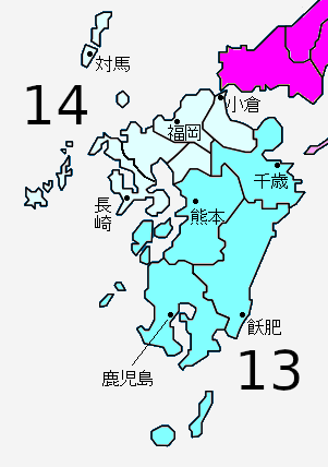 The lighter blue area was the 14th Divisional Region of Kokura. The south area was the 13th Divisional Region of Kumamoto. From 'Six Regions of Chindai Table' in 1875.